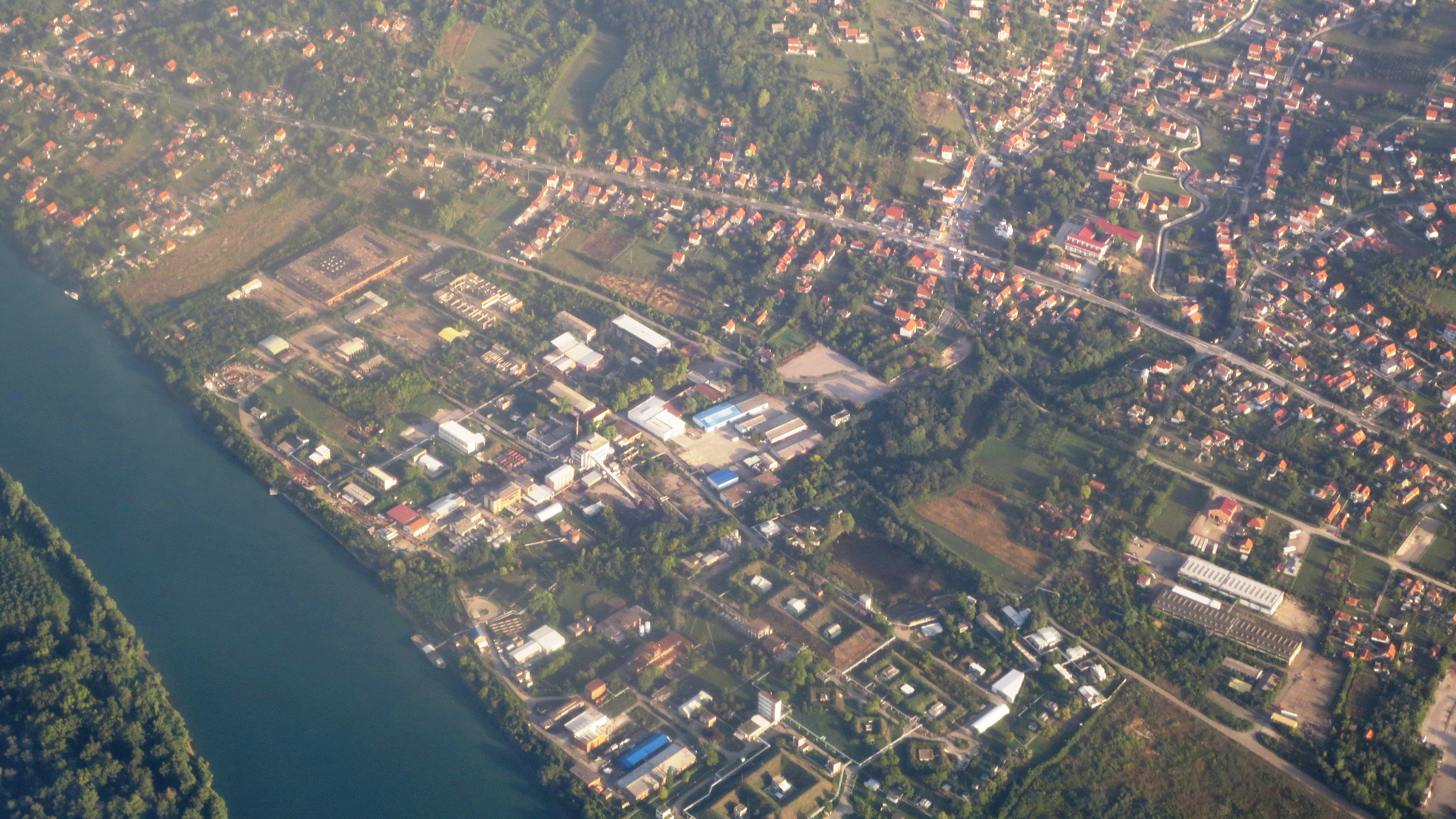 Aerial view over Baric by the Sava River. The factory visible is the Baric Explosives Factory, which was bombed by NATO on May 2-3, 1999.